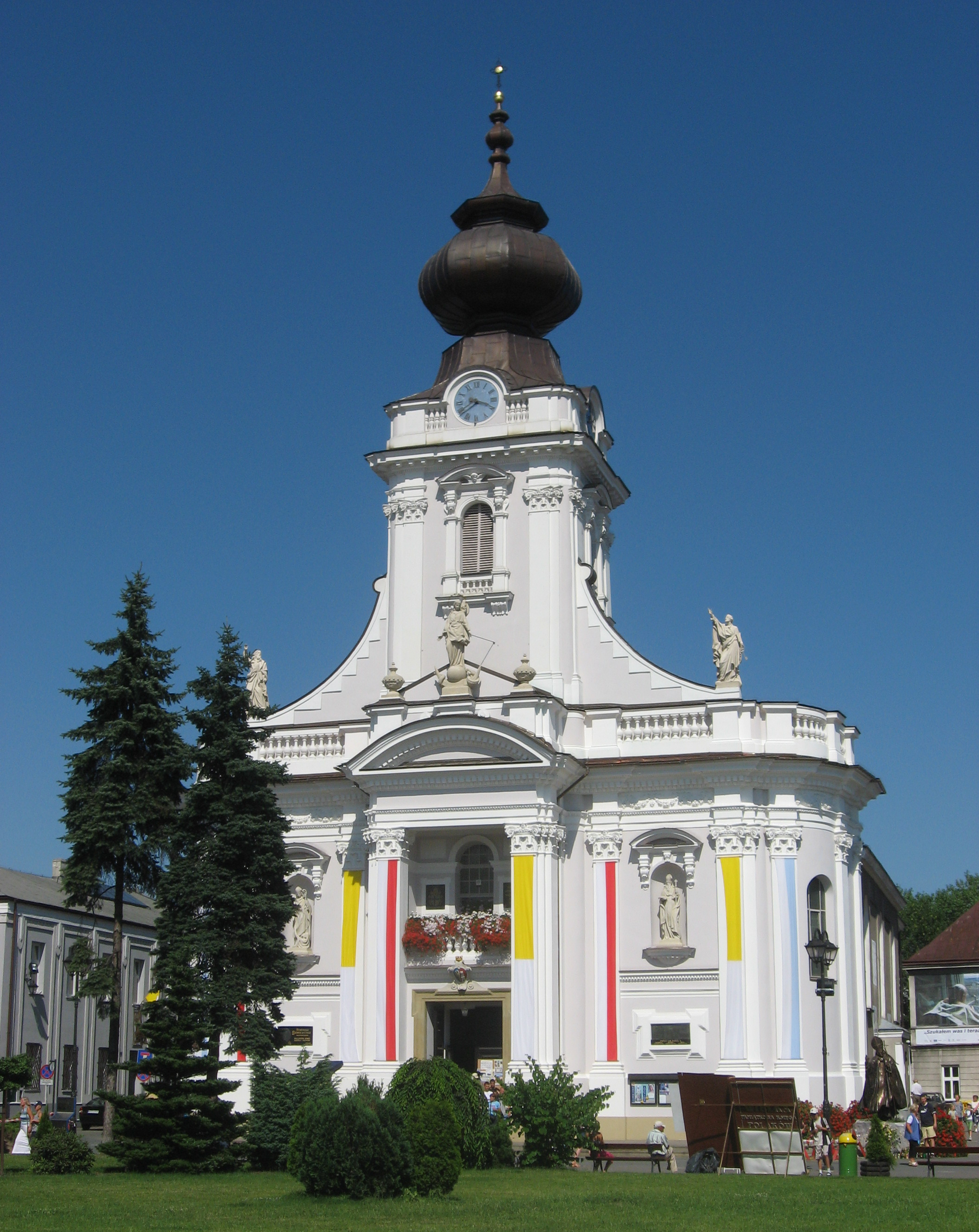 Basilica of the Presentation of the Blessed Virgin Mary in Wadowice